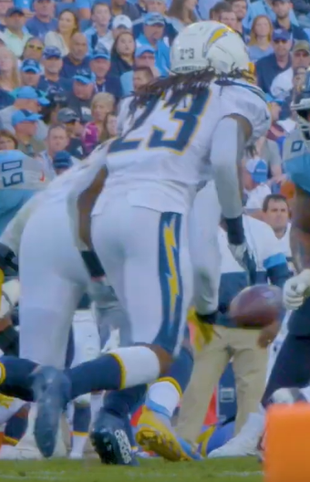 Desmond King 2019. Image from Timely 3rd Down Conversions vs. Chargers | Beneath the Surface, ~ 01:04.